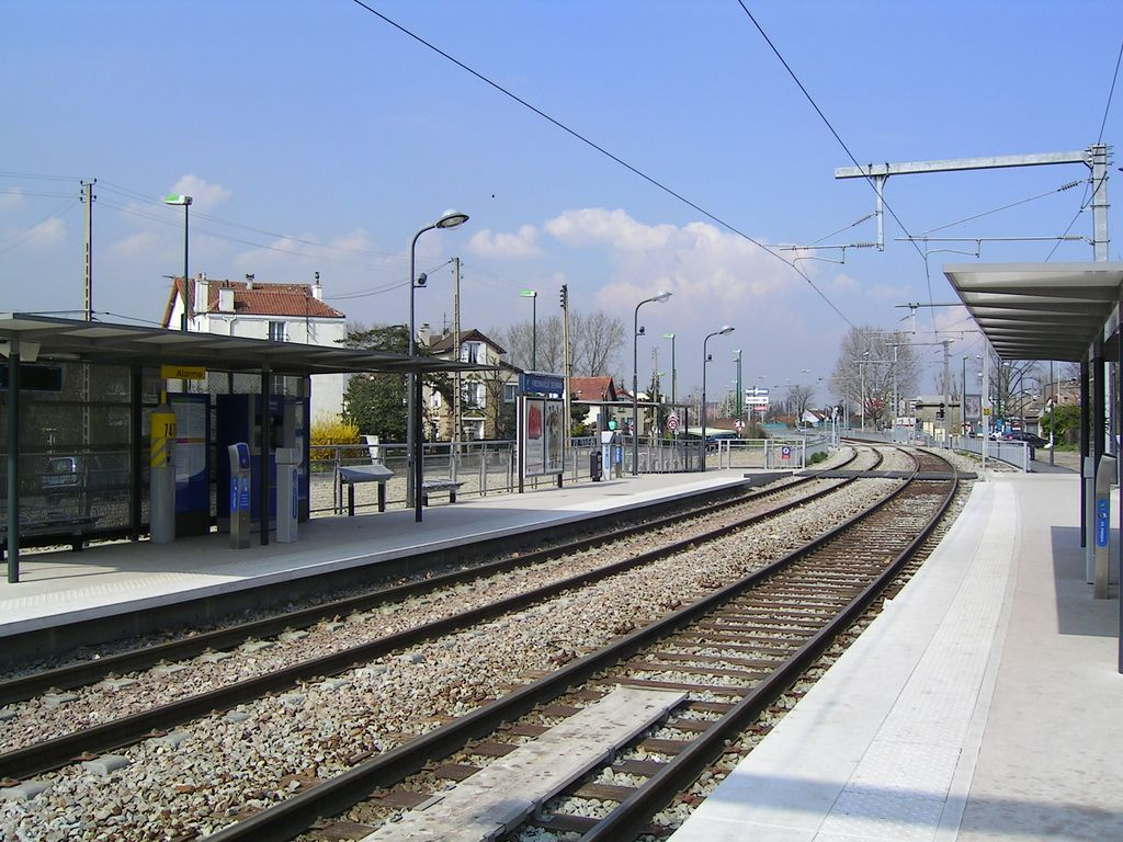 Gare de Freinville, tram-train T4 Photo personnelle (own work) de Marianna